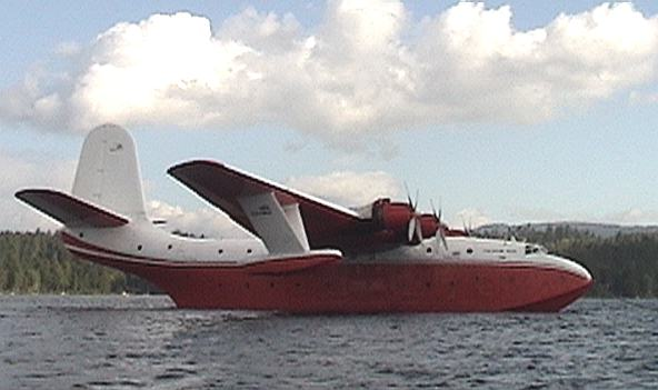 A higher res pic I took of the Philippine Mars as a Water bomber moored on Sproat Lake in British Columbia